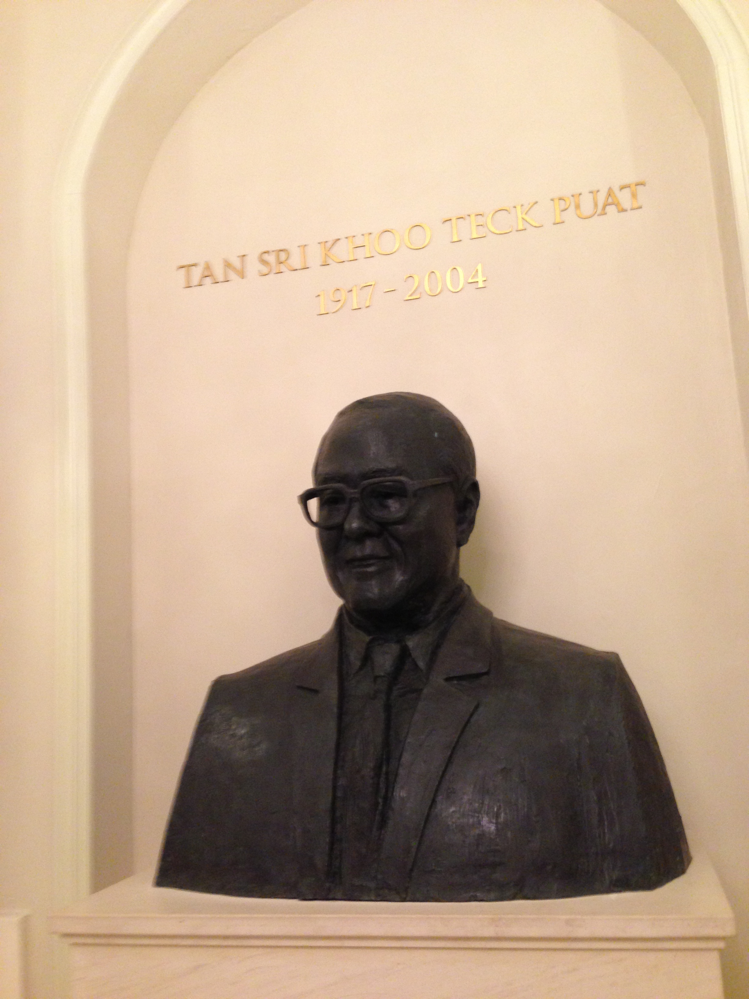 A bust of banker and hotel owner Khoo Teck Puat in the lobby of Goodwood Park Hotel, Singapore.